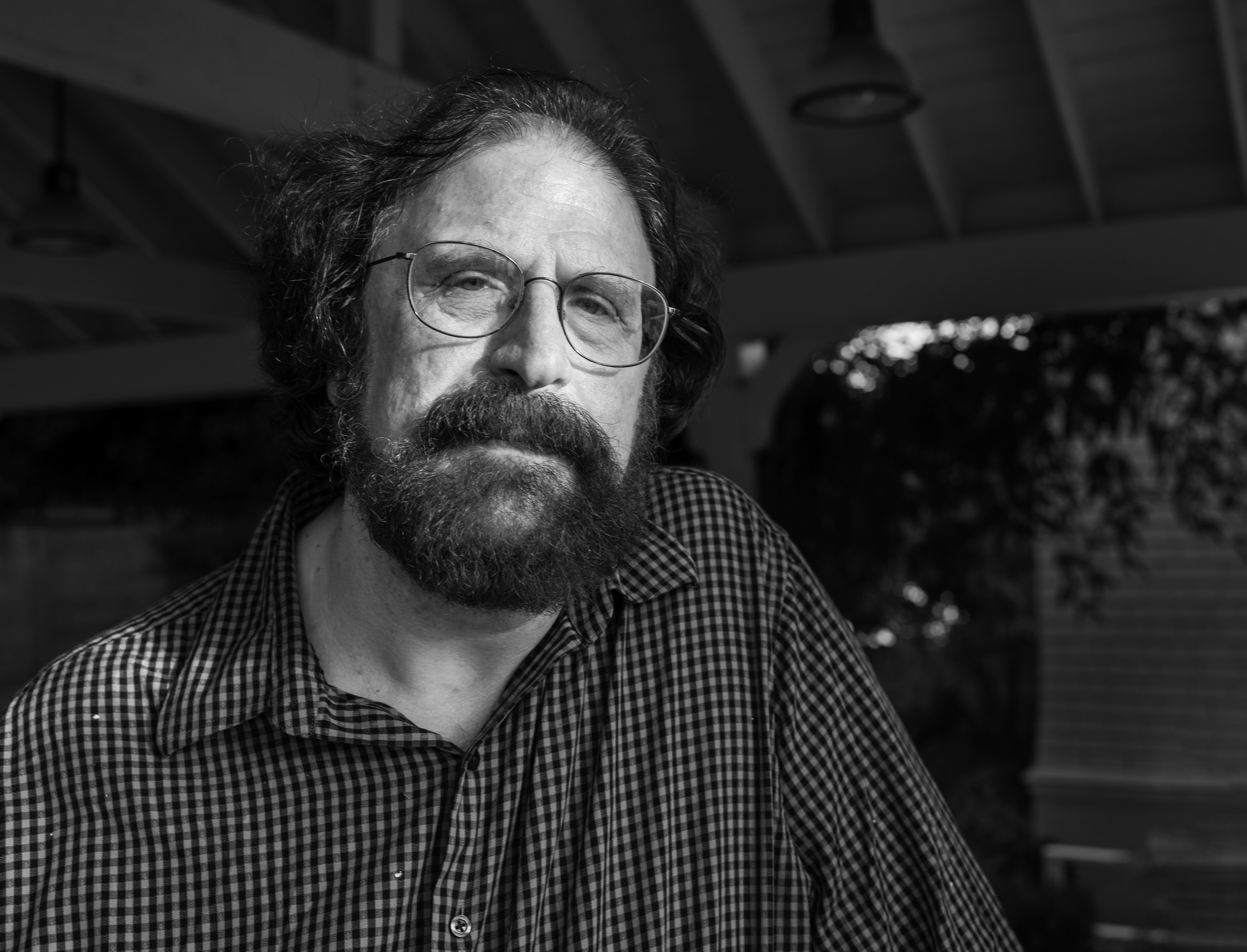 James Estrin in California in 2018 by Christopher Michel